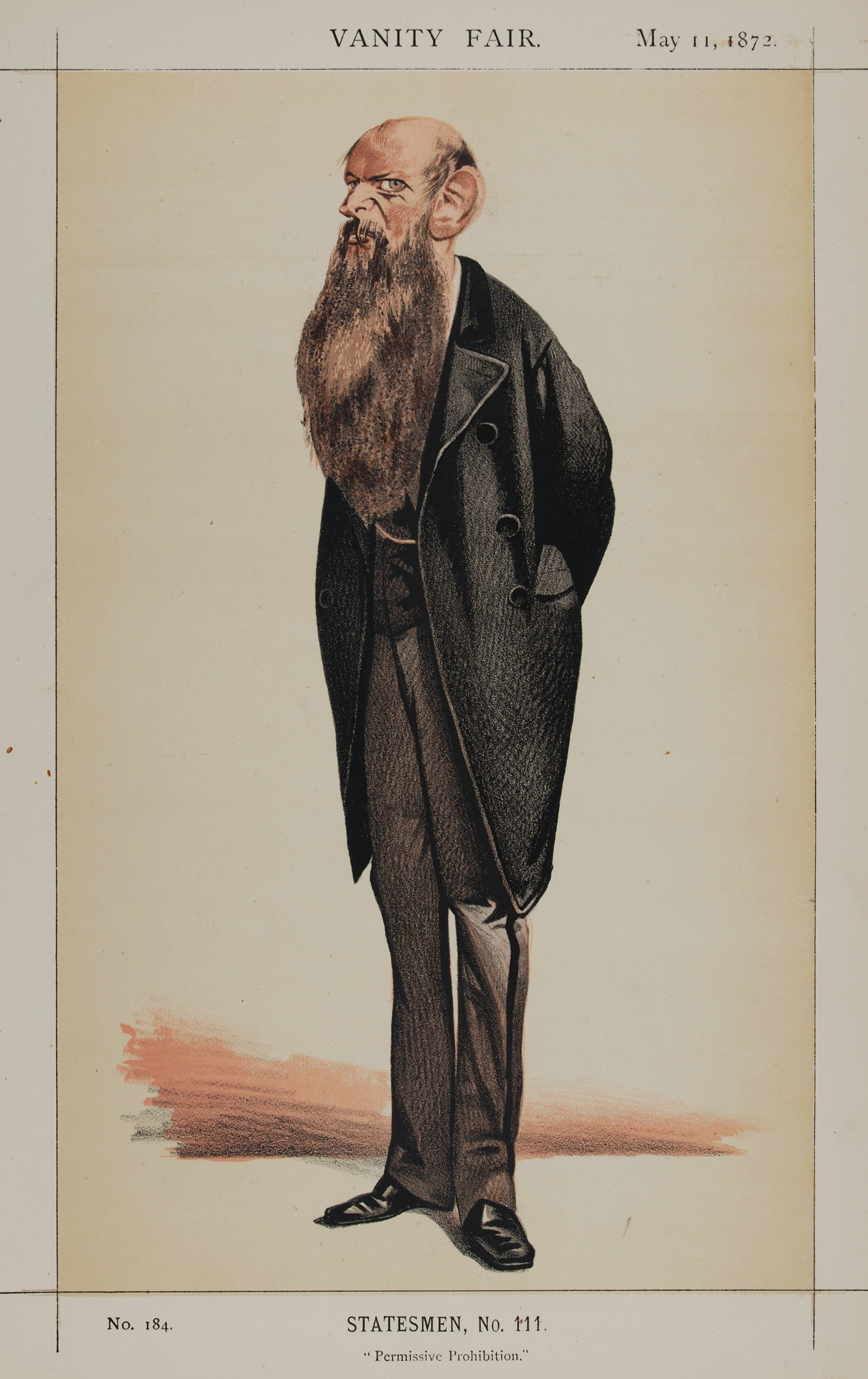 Statesmen No.111: Caricature of Sir Wilfrid Lawson, 2nd Baronet MP (1829-1906). Caption reads: "Permissive Prohibition"